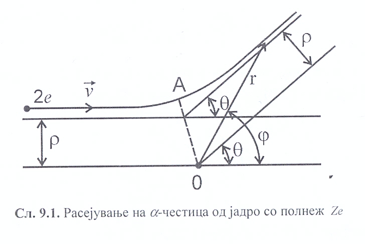 Scattering of the atom according Rutherford formula